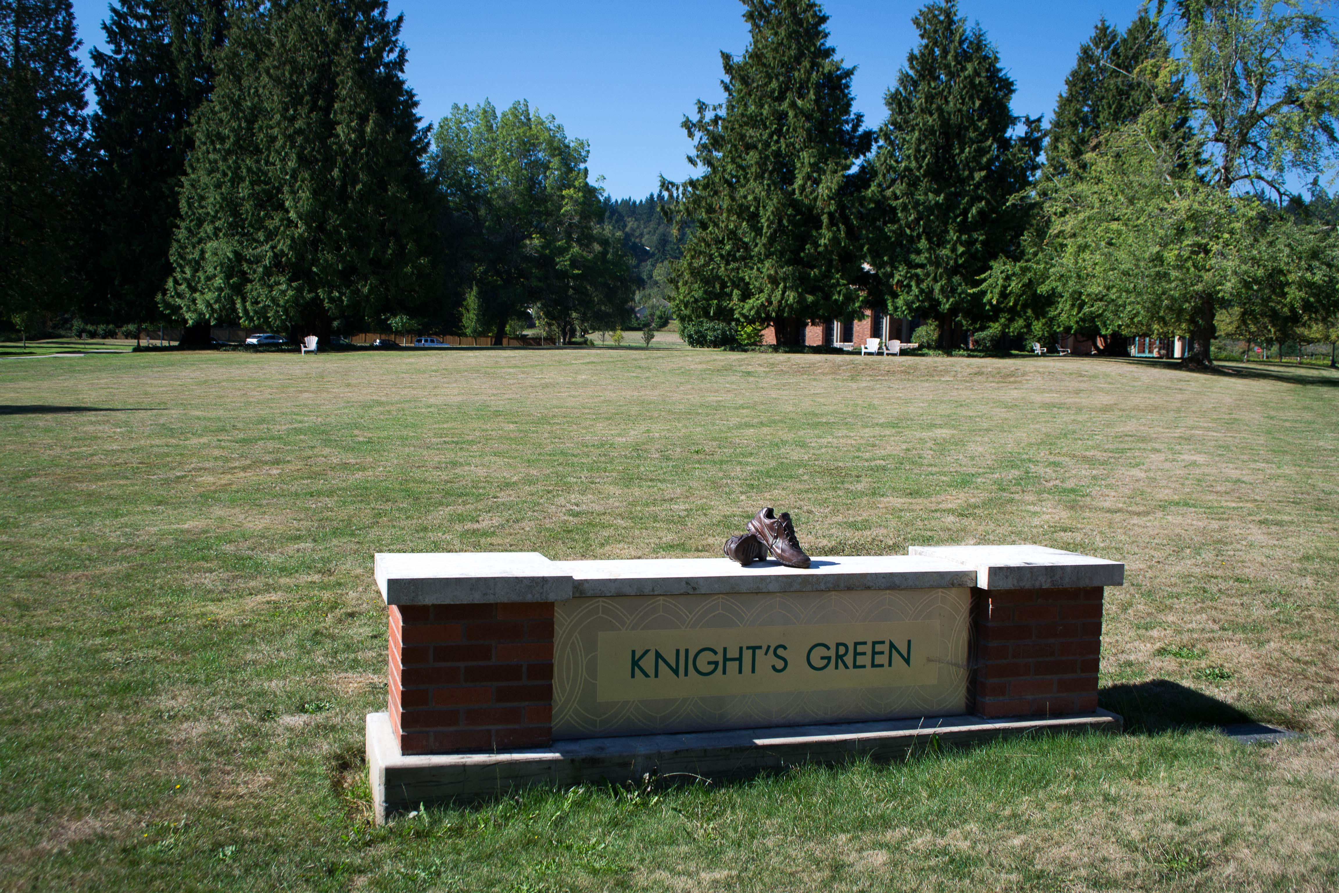 Knight's Green was made possible by a gift from Phil Knight